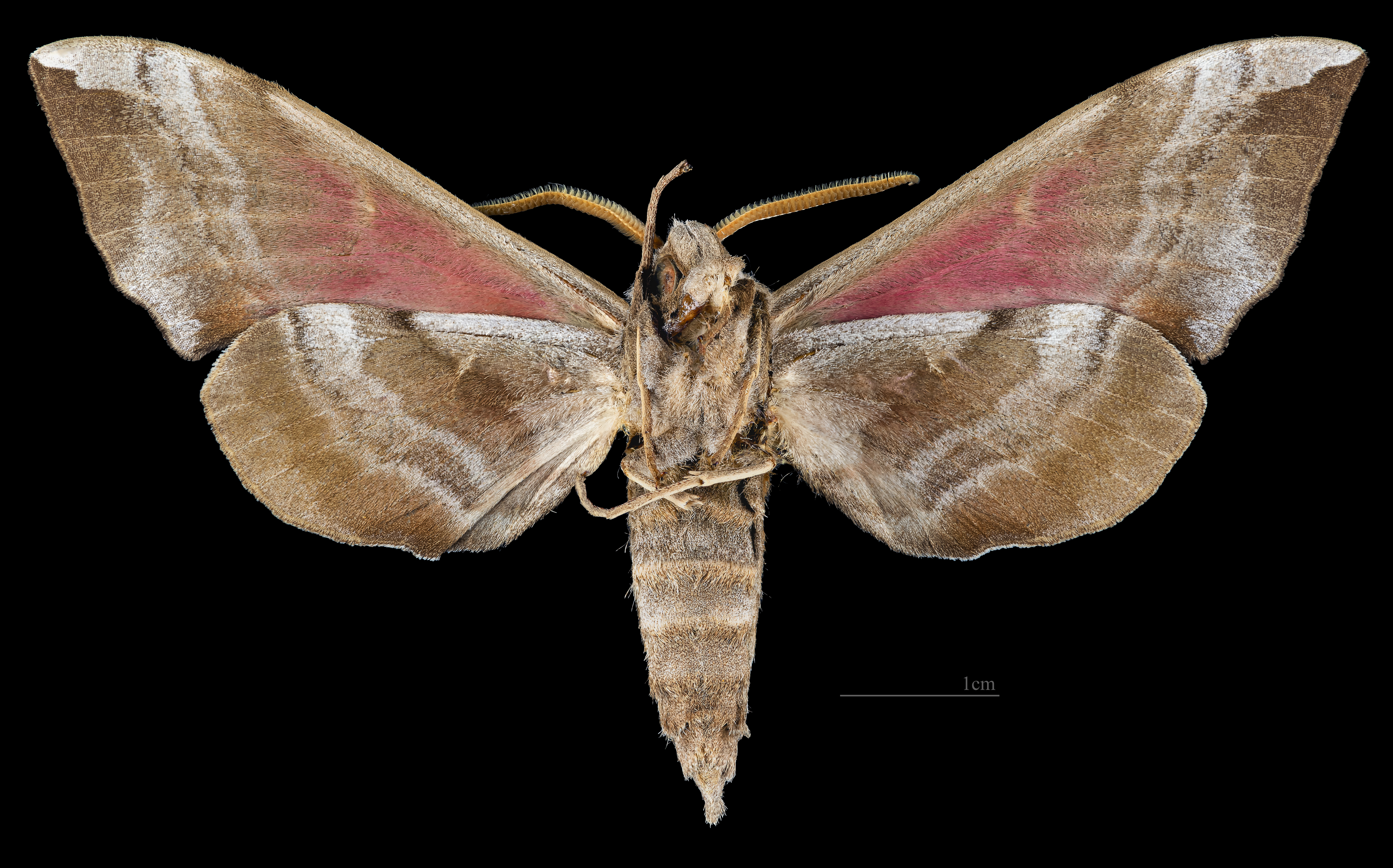 Smerinthus planus - △ Ventral side Collection of the Mathematician Laurent Schwartz